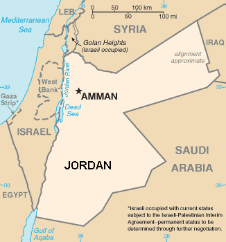 CIA World Factbook map of Jordan modified to make it an Amman location map. This locator map image could be recreated using vector graphics as an SVG file. This has several advantages; see Commons:Media for cleanup for more information. If an SVG form of this image is available, please upload it and afterwards replace this template with vector version available|new image name . It is recommended to name the SVG file "Amman location.svg" - then the template Vector version available (or Vva) does not need the new image name parameter.